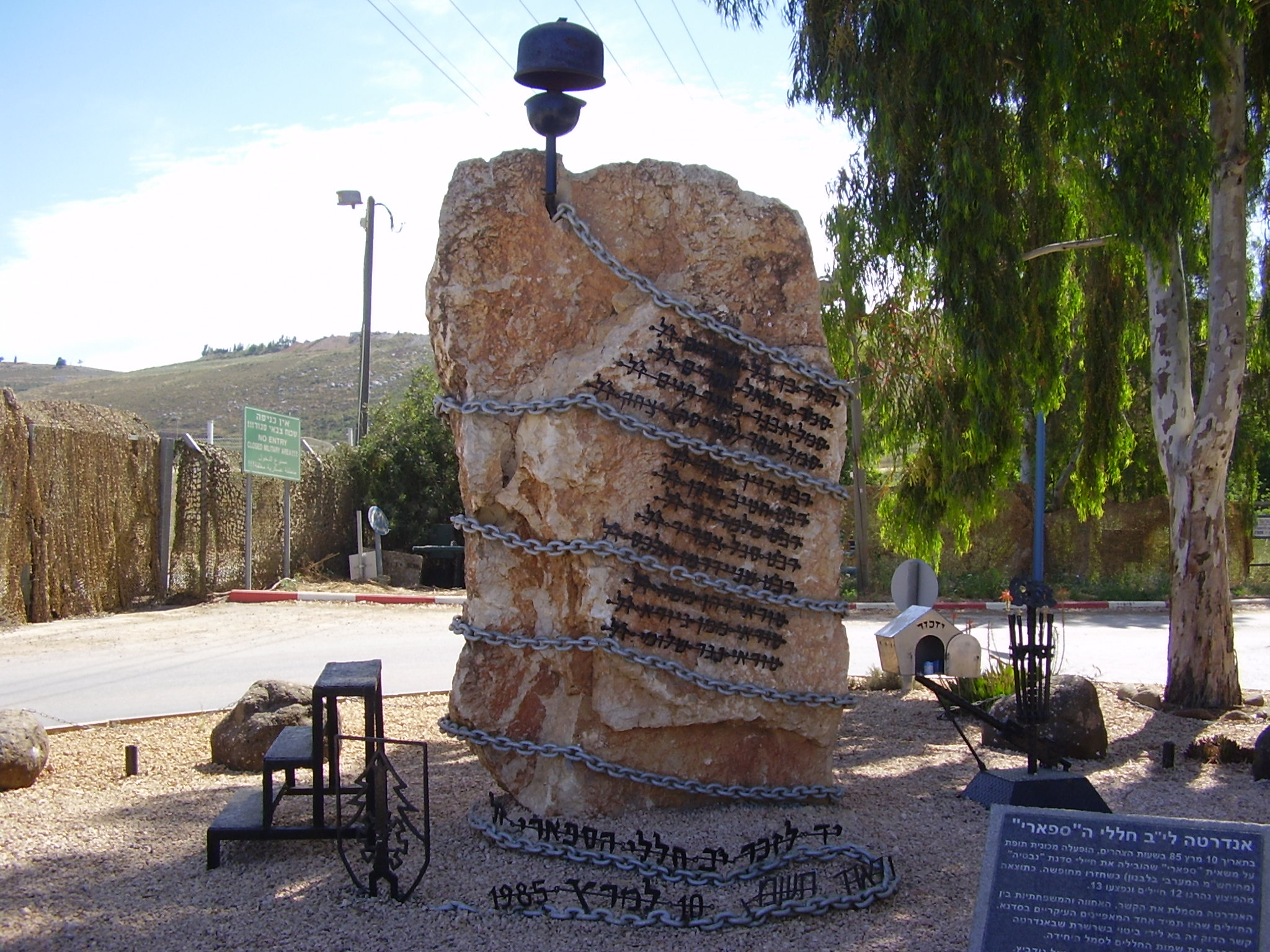 "safari" memorial in metula, israel אנדרטת חללי אסון משאית הספארי במטולה